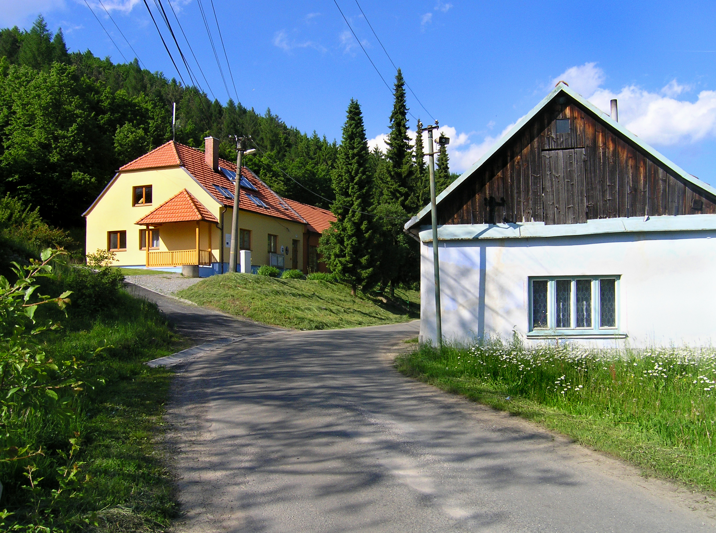 Municipal office in Staré Hutě village, Czech Republic